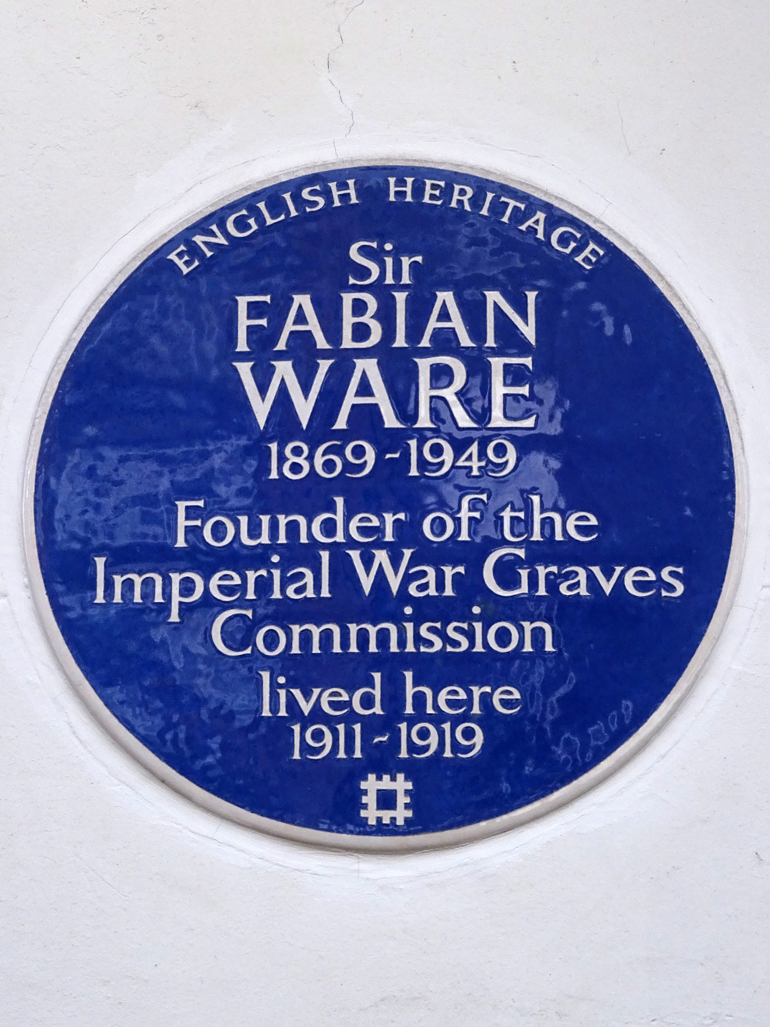 Blue plaque erected in 2014 by English Heritage at 14 Wyndham Place, Marylebone, W1H 2PY